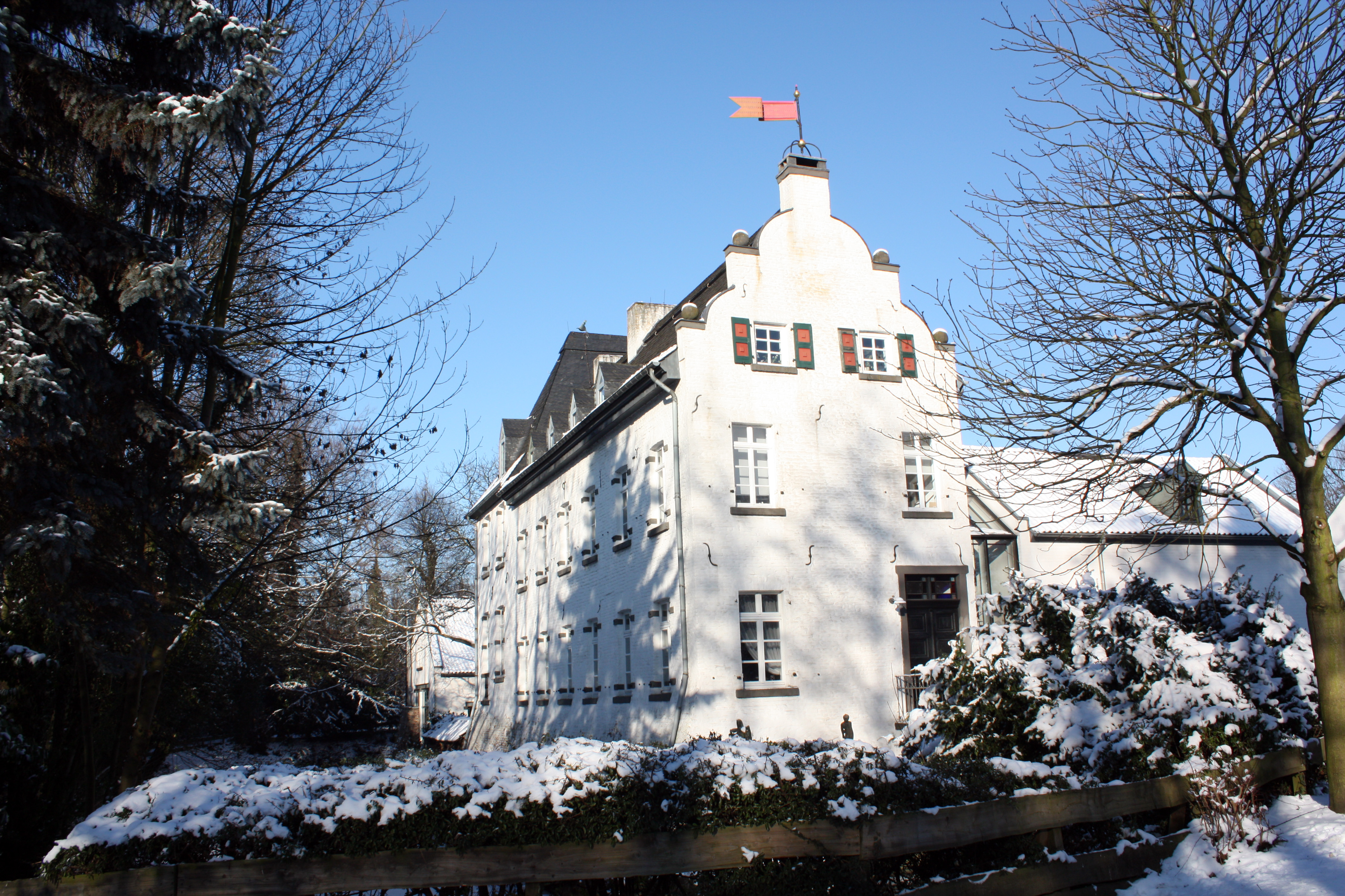 Castle Gleuel, Hürth, Germany